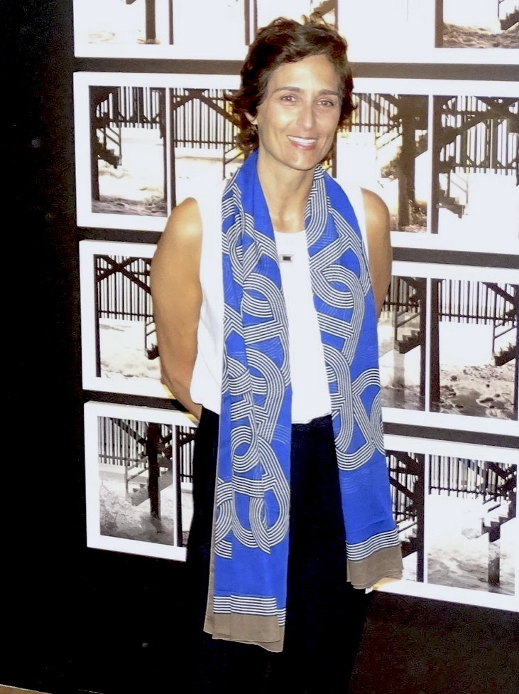 Alexandra Hedison at the opening of Everybody Knows This Is Nowhere in 2016 in Portugal